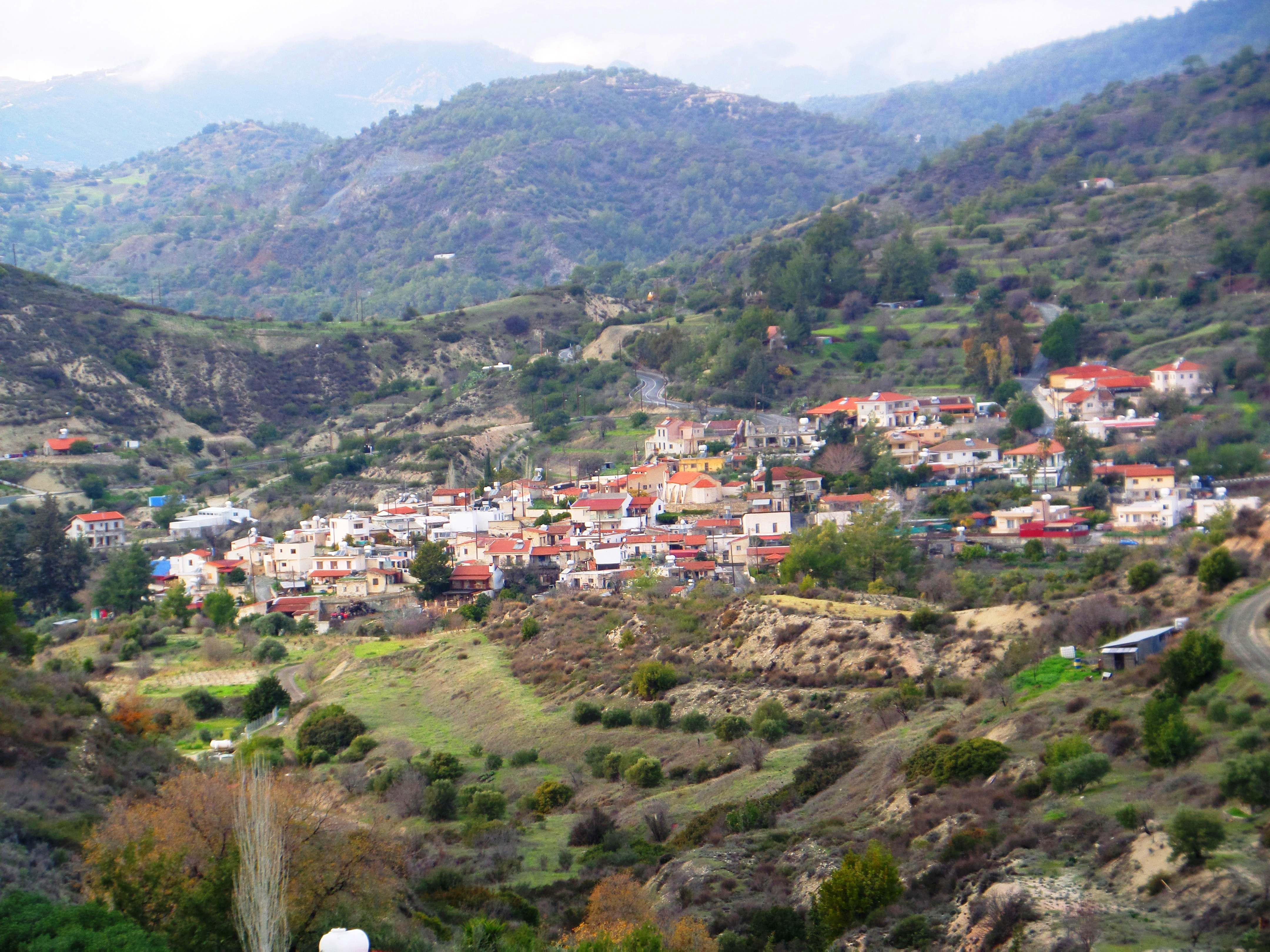 View of Apsiou.